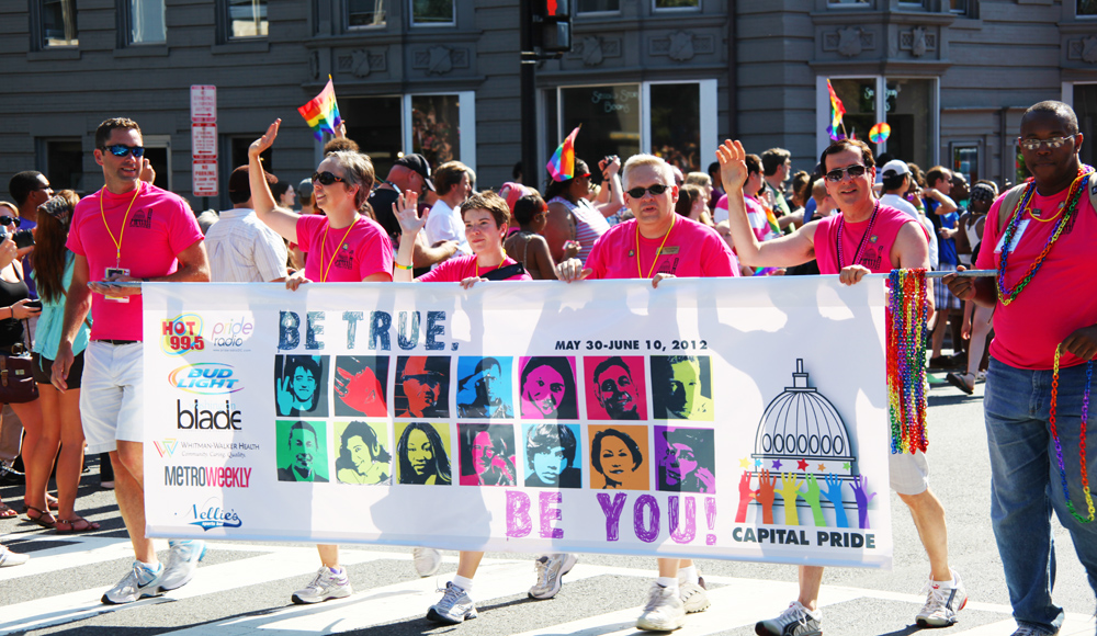 The Capital Pride parade in Washington, D.C., in the United States in 2012. One of the first contingents is the Capital Pride board of directors themselves, who carry a banner displaying that year's slogan.